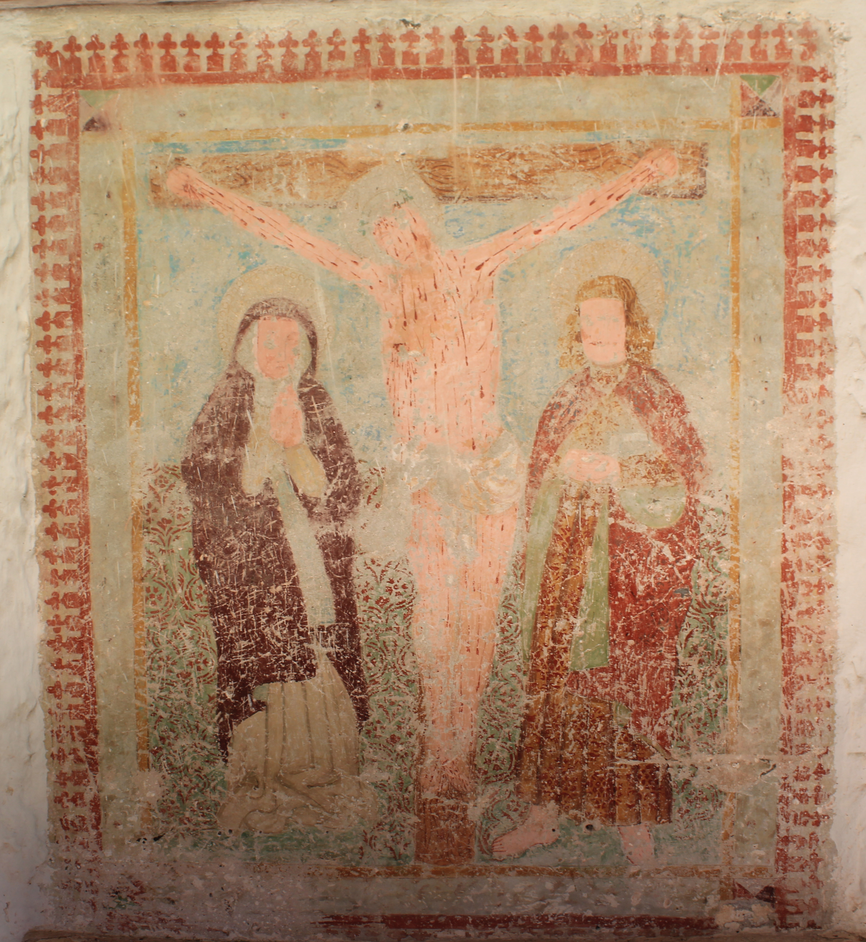 Church in Latschach in the community of Hermagor